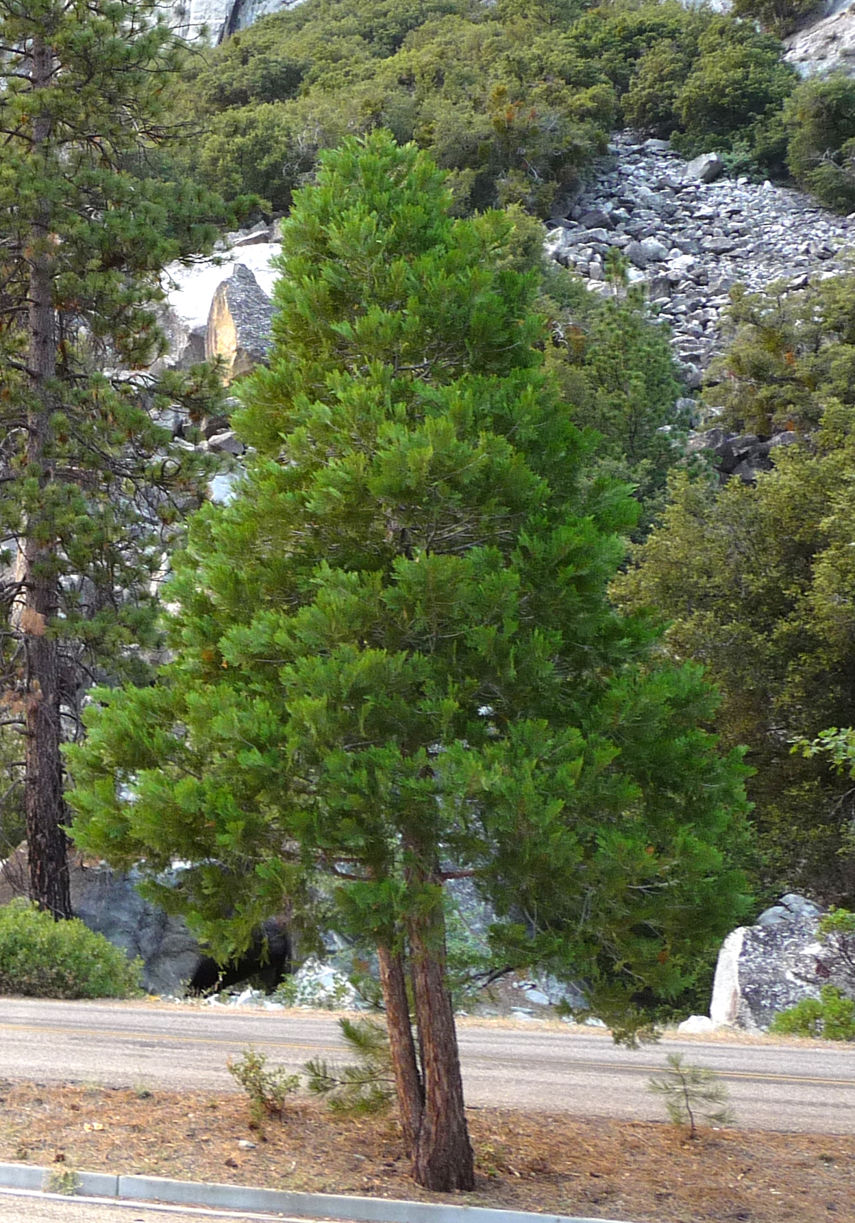 Calocedrus decurrens, near Zumwalt Meadow, Kings Canyon National Park, California.